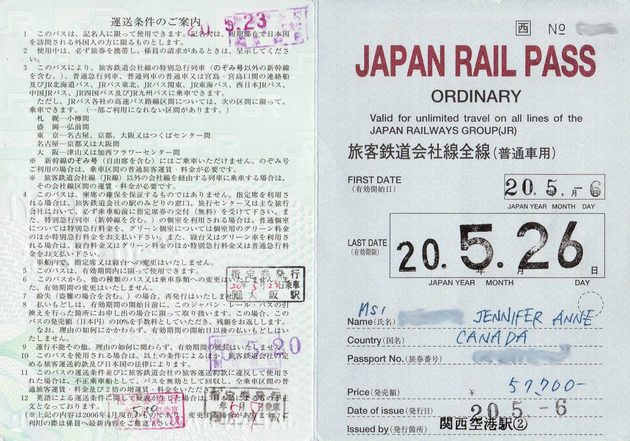 inside of Japan Rail pass